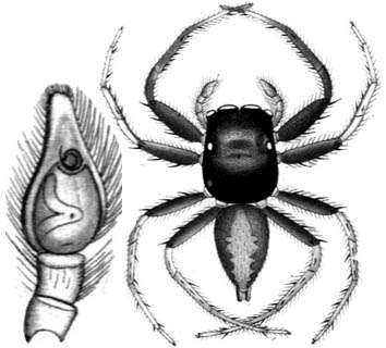 male Margaromma semirasa from Queensland, Australia.